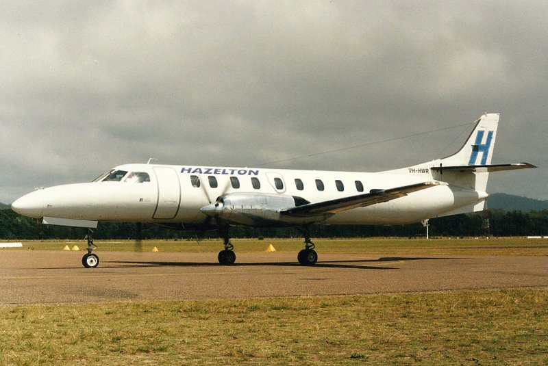 A Hazelton Airlines Fairchild SA227-DC Metro 23 in the company's early-1990s colour scheme at Moruya Airport on the south coast of New South Wales in Australia. Image scanned from a 6"x4" photograph of VH-HWR taken by YSSYguy on 29 December 1998.